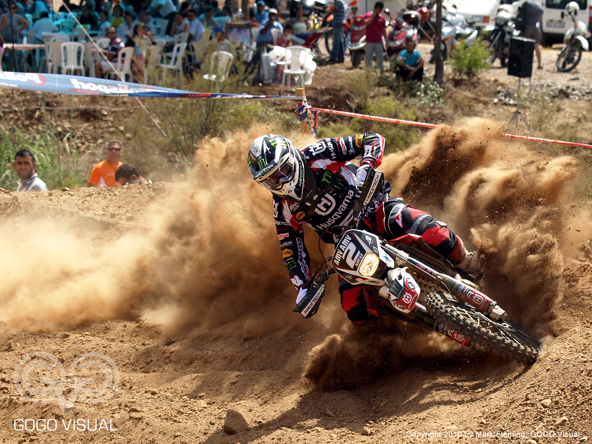 Antoine Méo rides his Husqvarna E1 bike at the 2010 World Enduro Championship Grand Prix of Turkey.